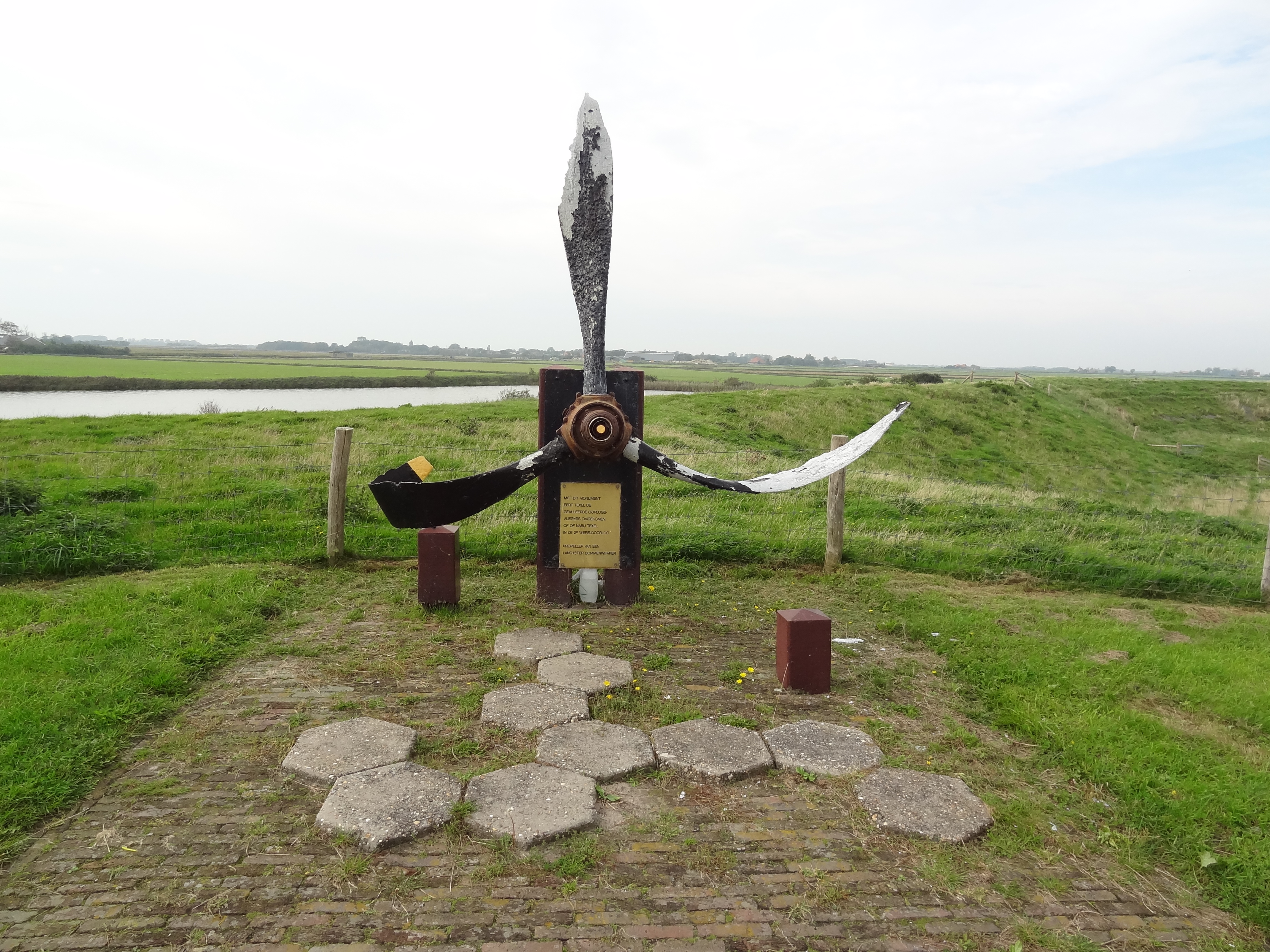 Lancaster-monument on the Lancasterdijk in Oosterend on Texel, The Netherlands